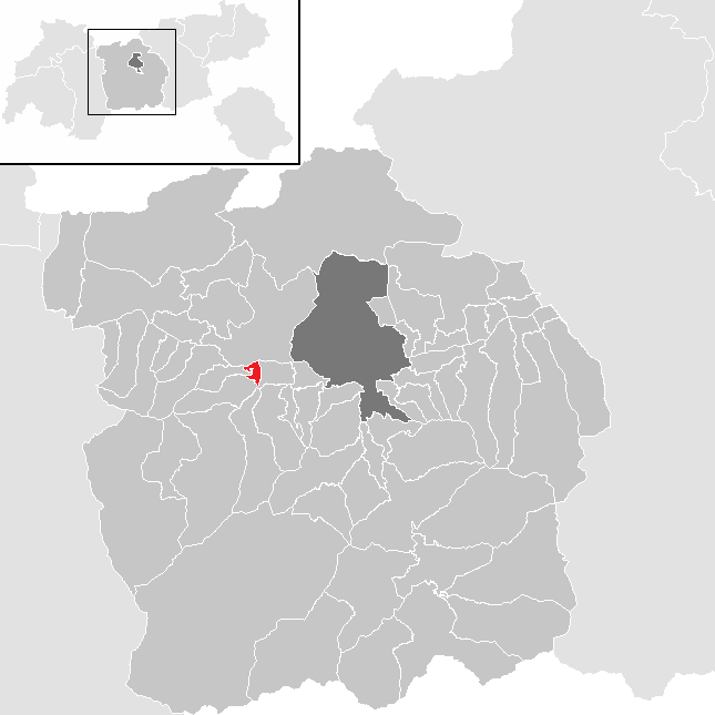 District Innsbruck Land